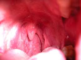 My uvula.